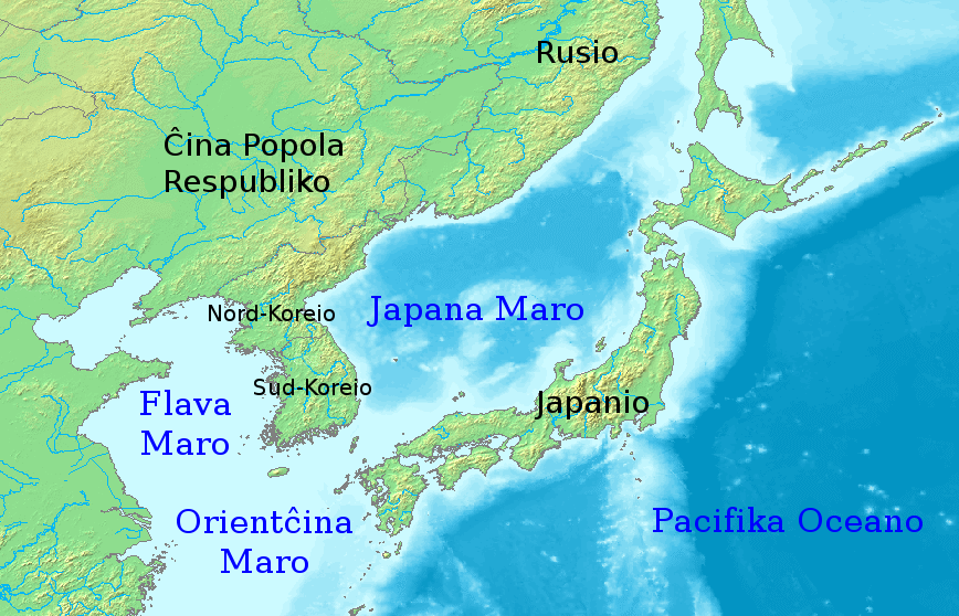 Map of the Sea of Japan in Esperanto